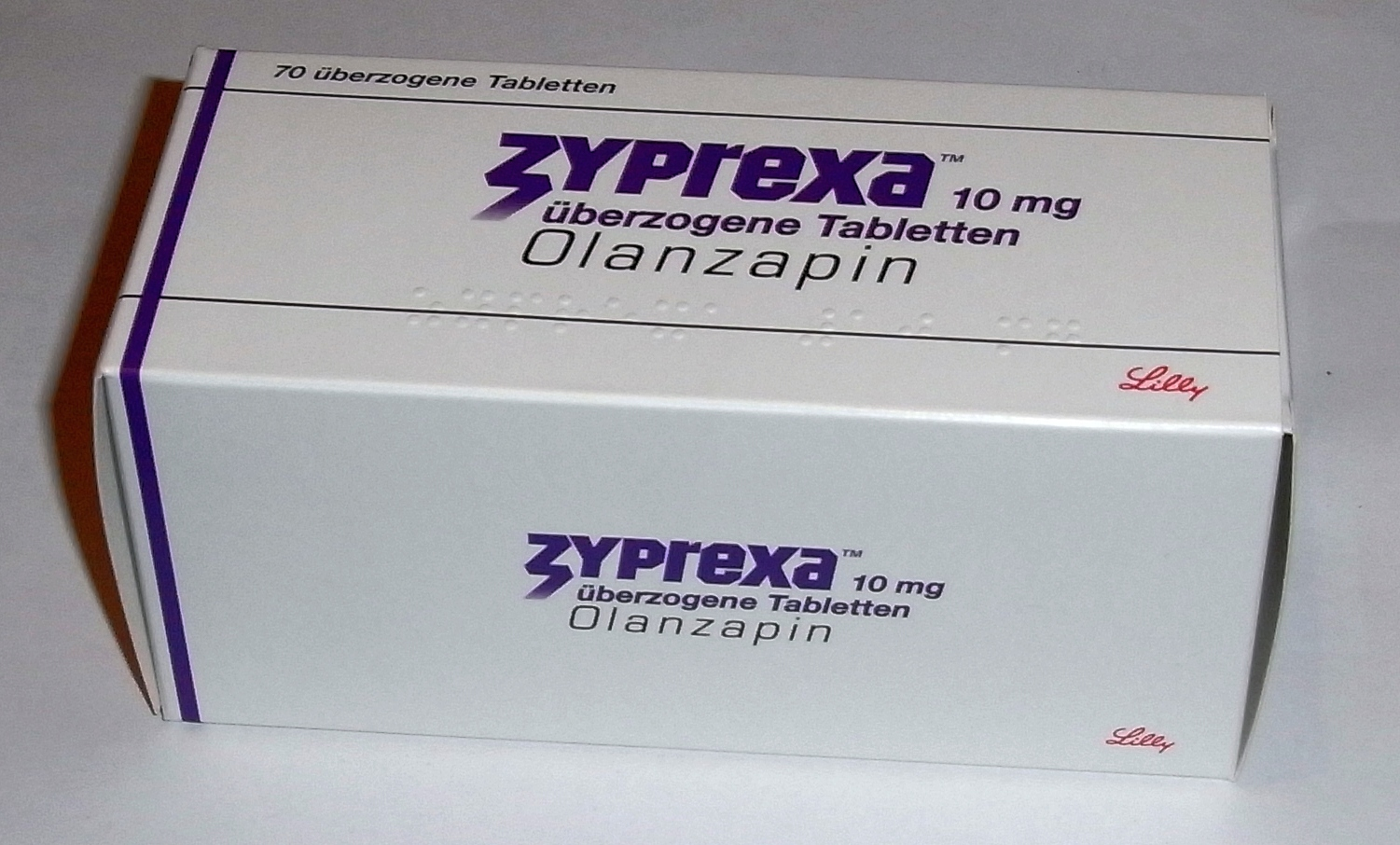 Zyprexa